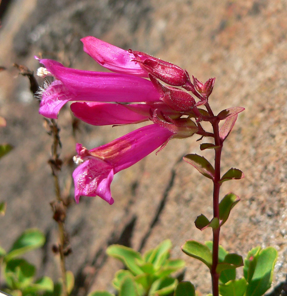 Penstemon newberryi at the University of California Botanical Garden, Berkeley, California